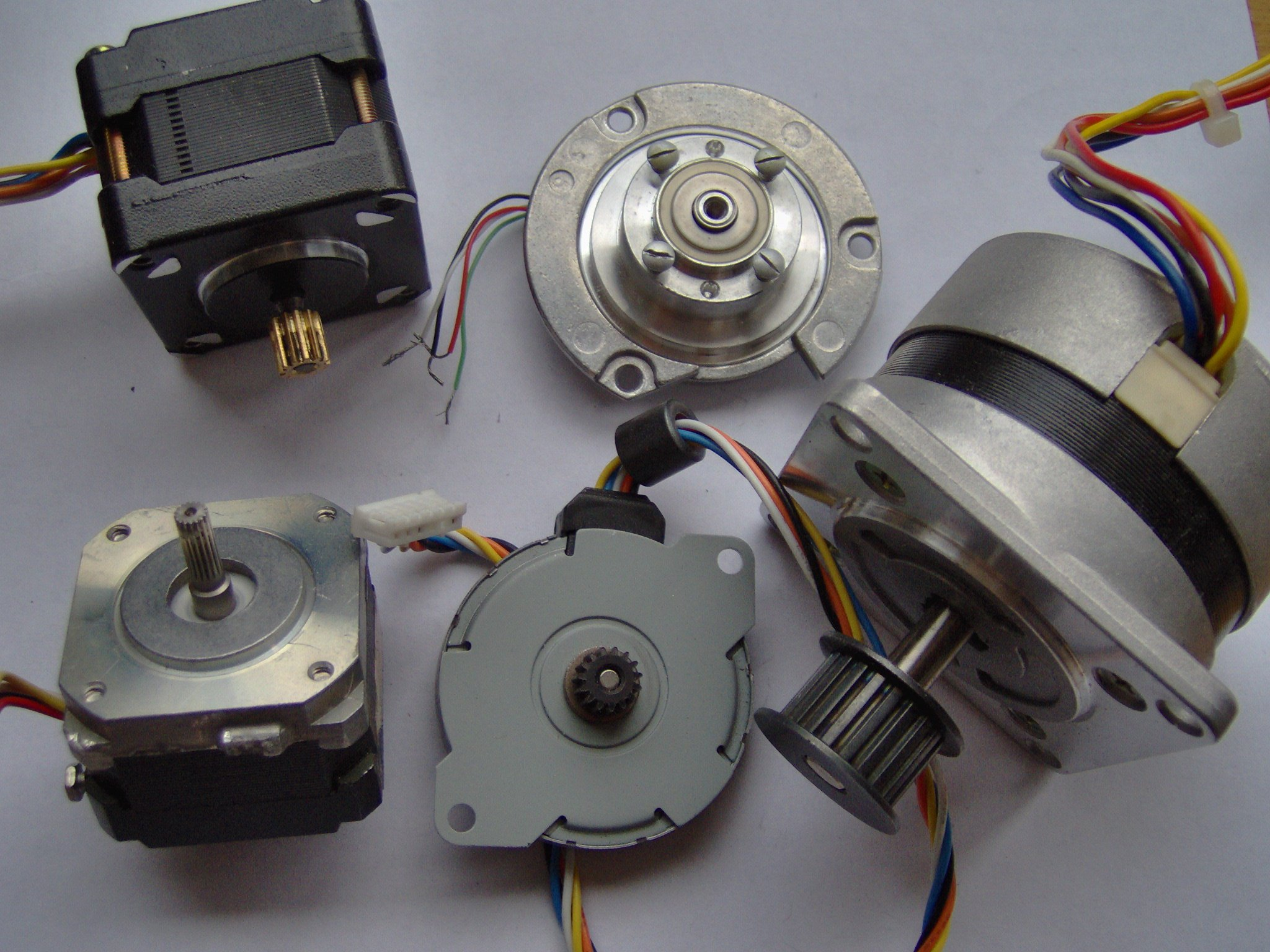 Stepping motors mainly from PCs